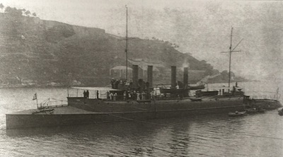 Photograph of portuguese Destroyer Tejo circa 1910 before its restoration and rearmament in 1916. Photo probably taken near Peniche, Portugal